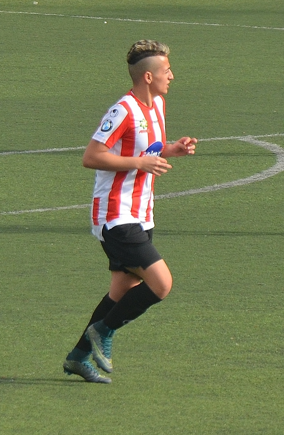 İlayda Civelek for Ataşehir Belediyespor in the home match against Fatih Vatan Spor in the 2017-18 season.